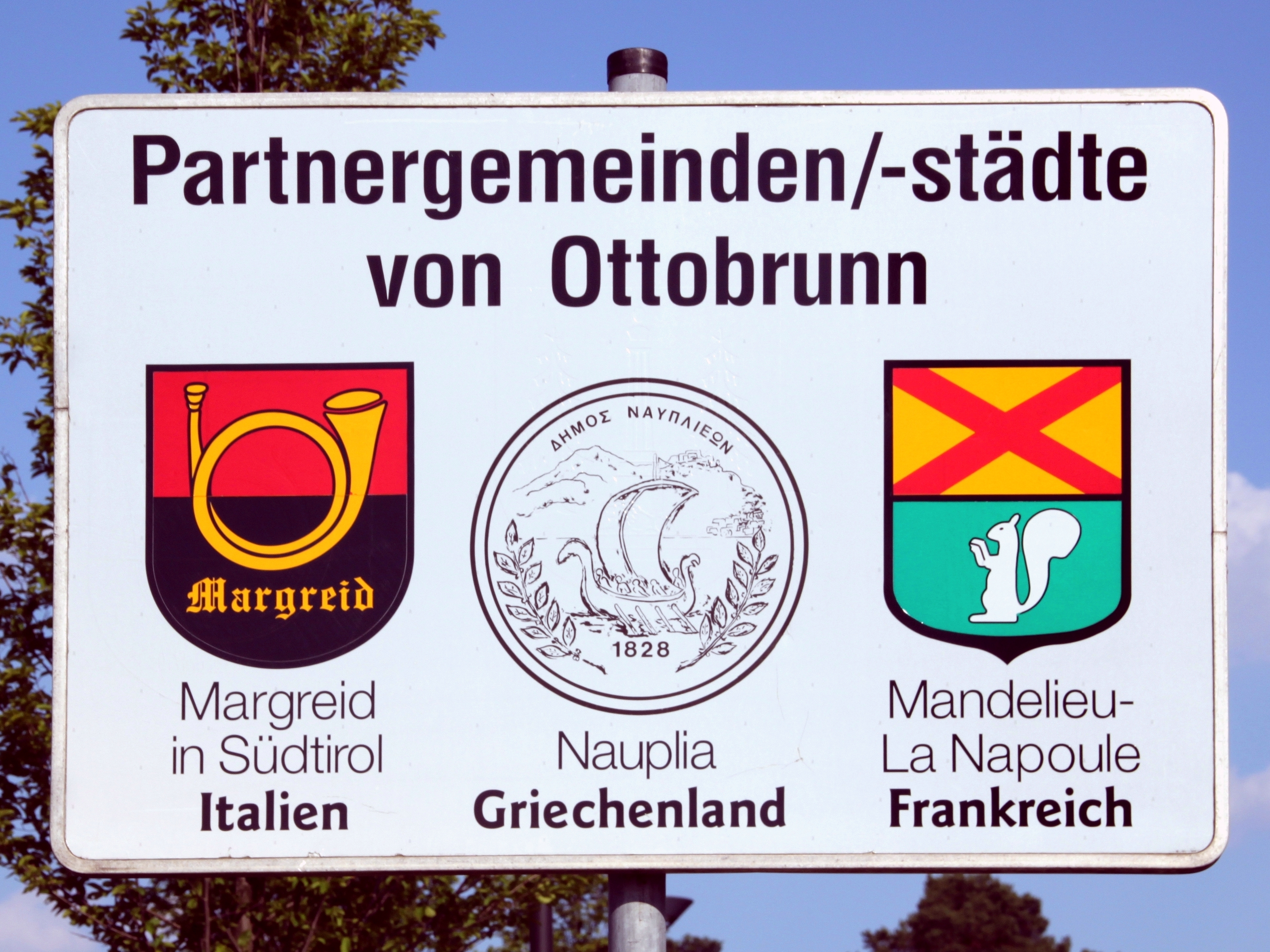 Ottobrunn: Sign commemorating the partnership with the municipalities of Margreid an der Weinstraße, Nafplion and Mandelieu-La Napoule.